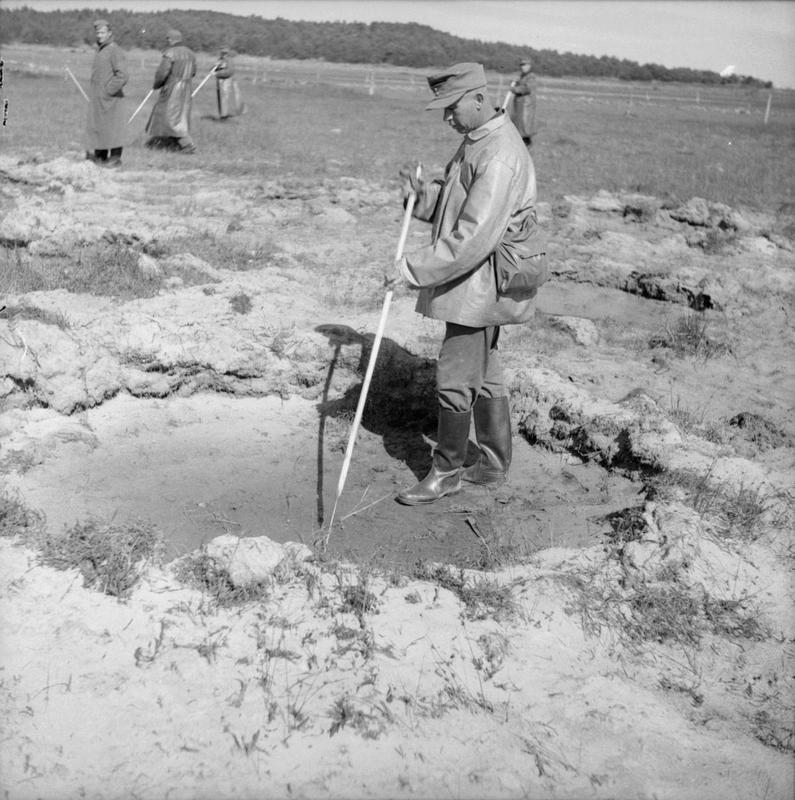 Norway After Liberation 1945 A German prisoner engaged in clearing a minefield near Stavanger probes for mines in a crater.